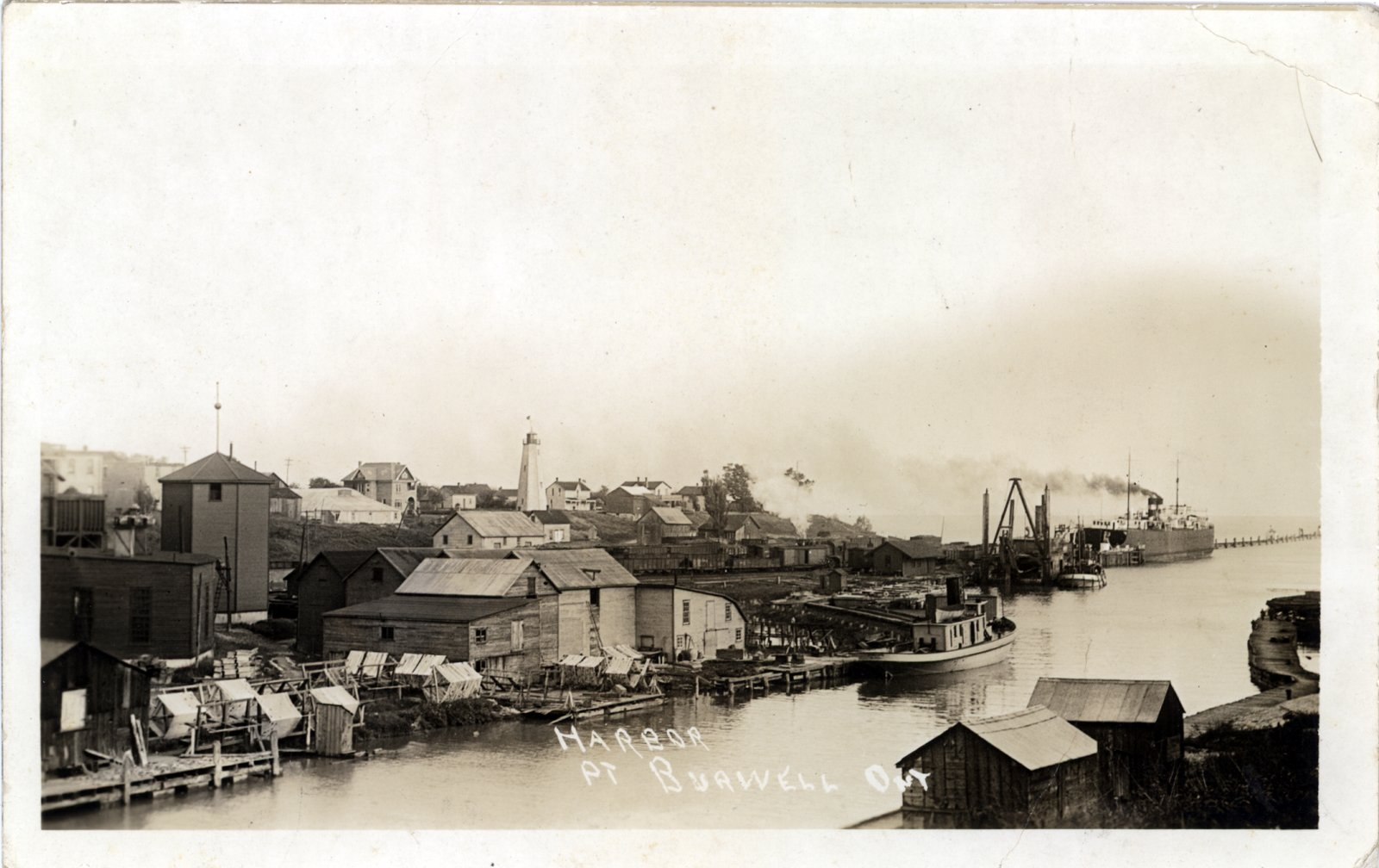 view of harbour at Port Burwell, Elgin County, Ontario, Canada circa 1910